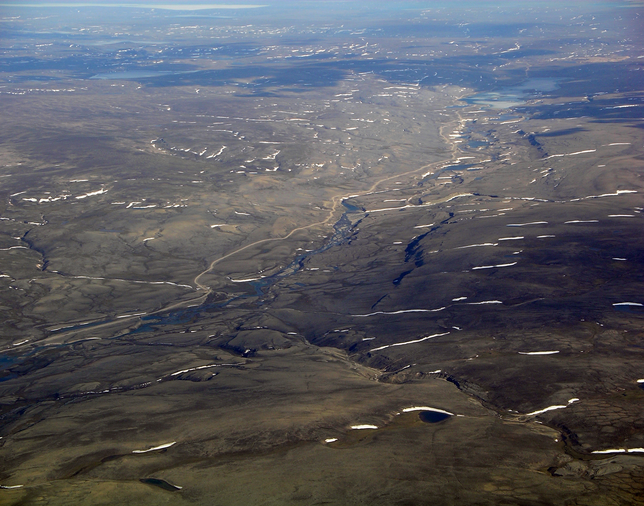 road on the northwest side of Mary River